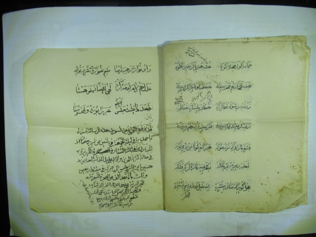 A manuscript of Ahmadi from the archive of legacy committe of Vejin. This manuscript is written in 1928. .وێنەی دەستنووسێکی ئەحمەدی نووسراوەی شێخ مارفی نۆدێ کە لە ئەرشیڤی کۆمیتەی کەلەپووری ڤەژین وەرگیراوە. دەستنووسەکە لە ساڵی ١٩٢٨دا نووسراوە.